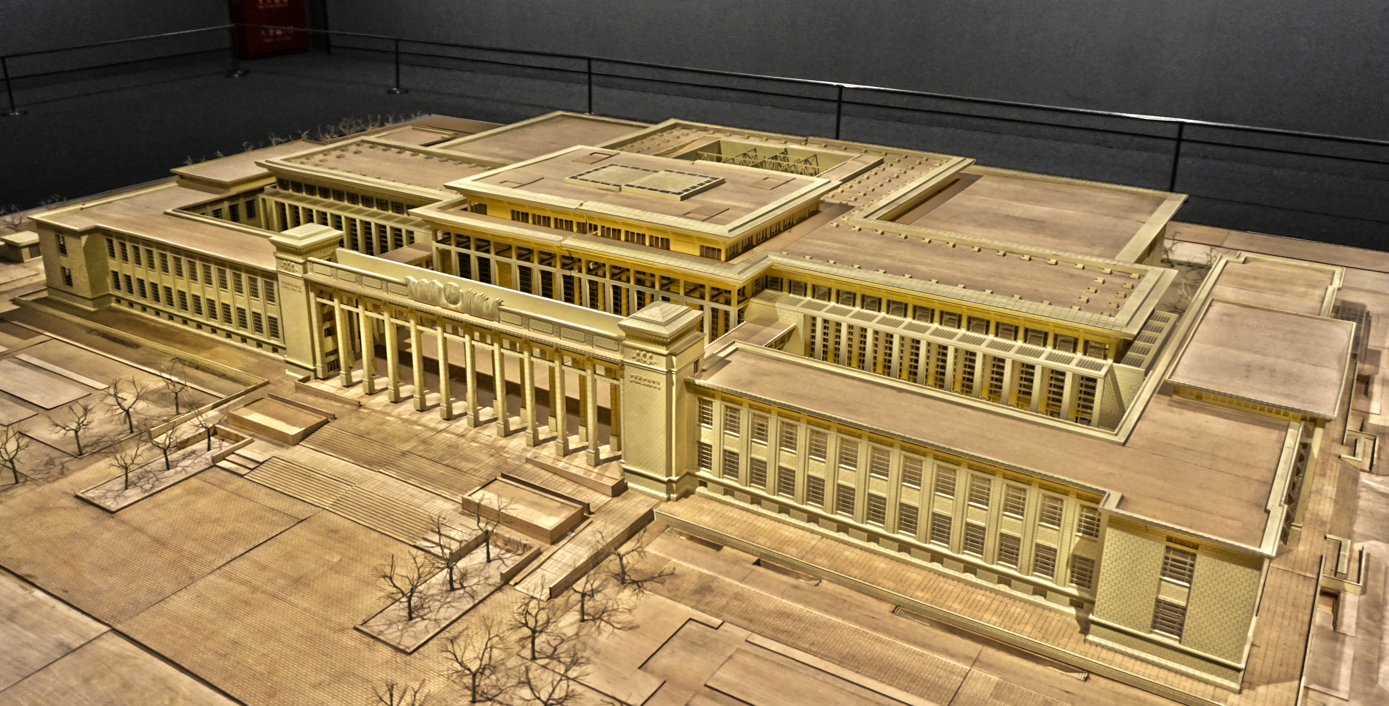 Model of Museum of China after renovation.